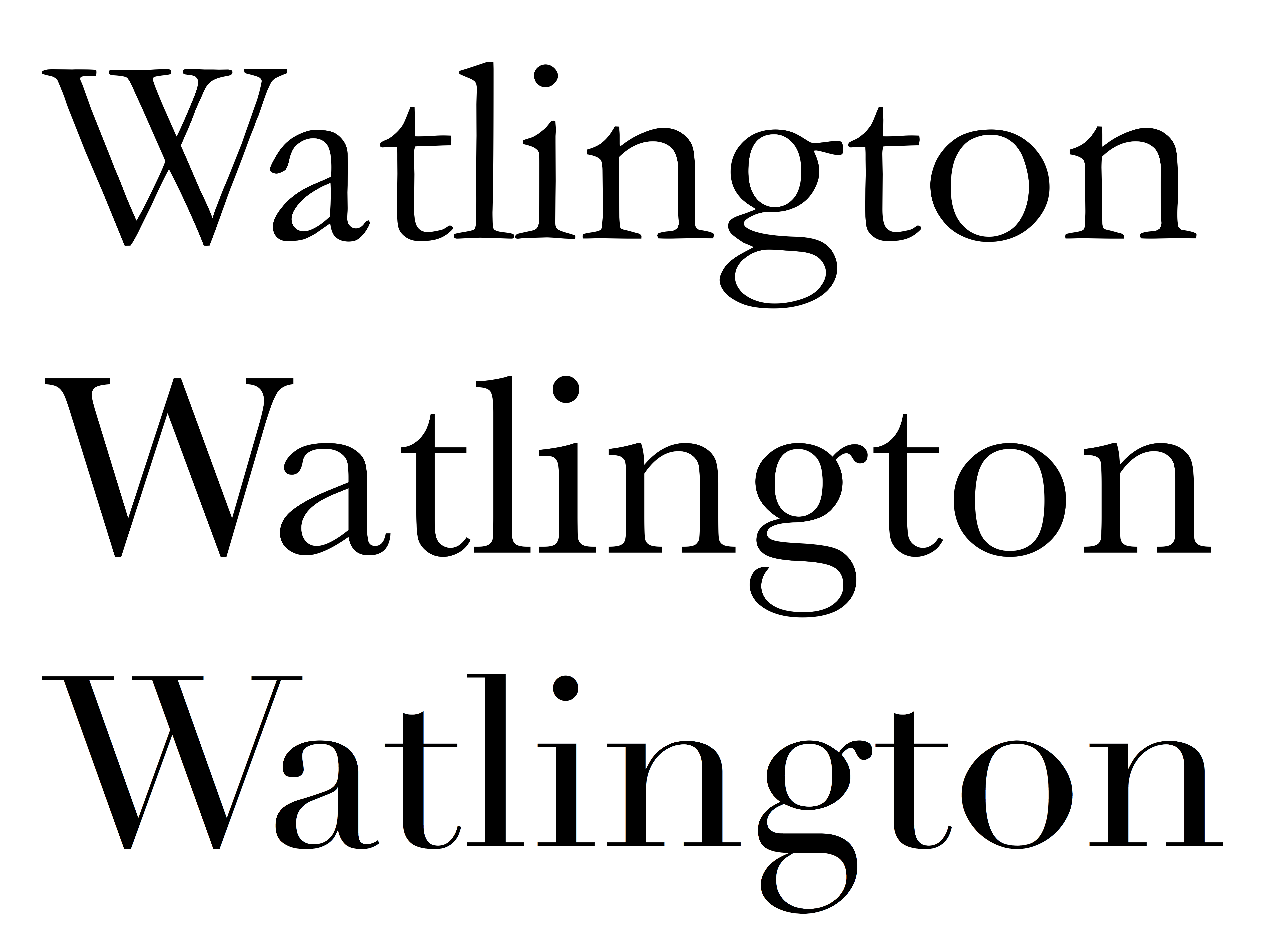 The three ages of serif typefaces: old-style, transitional and Didone. Garamond, Baskerville and Didot.